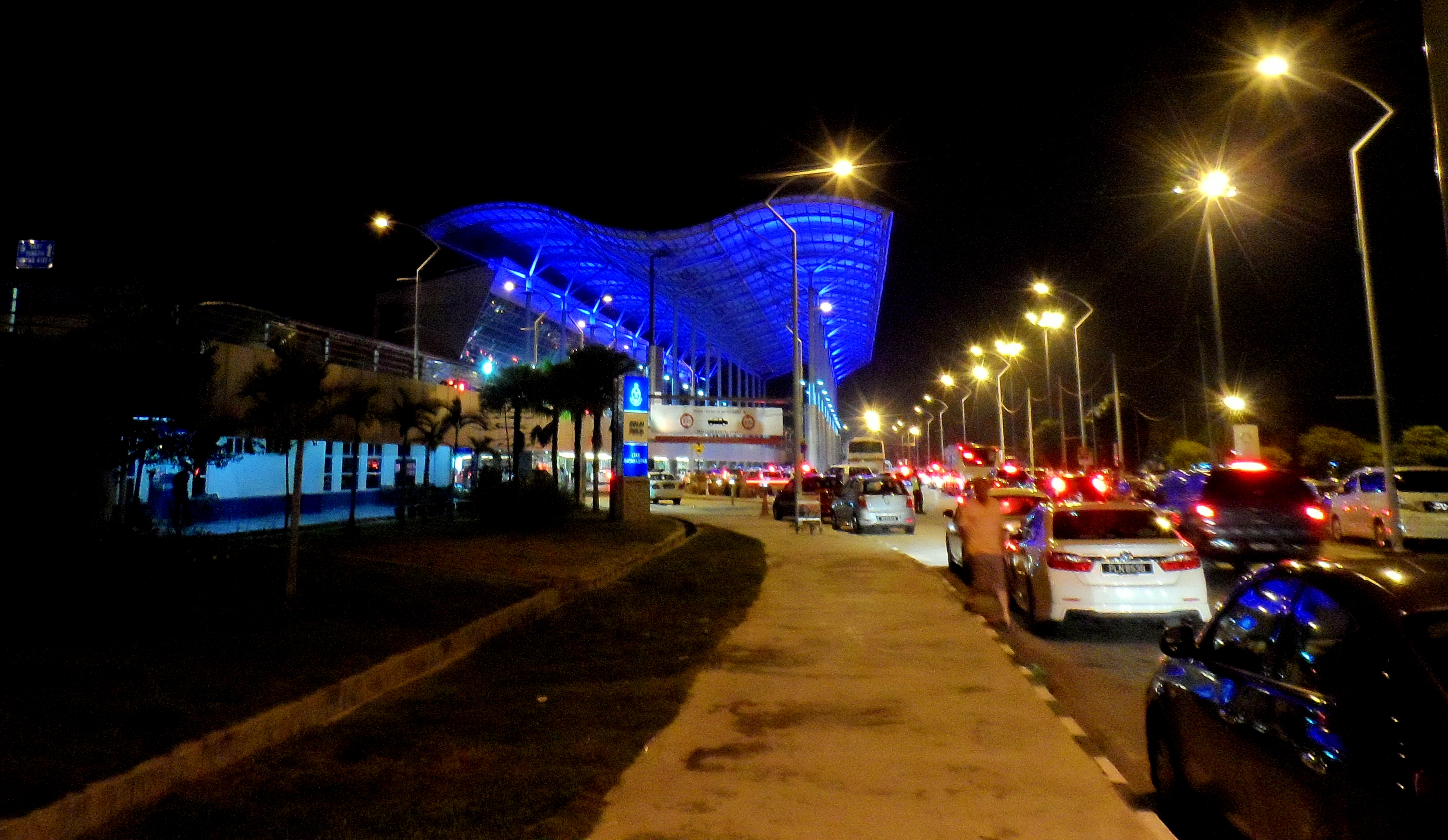 Penang International Airport at night